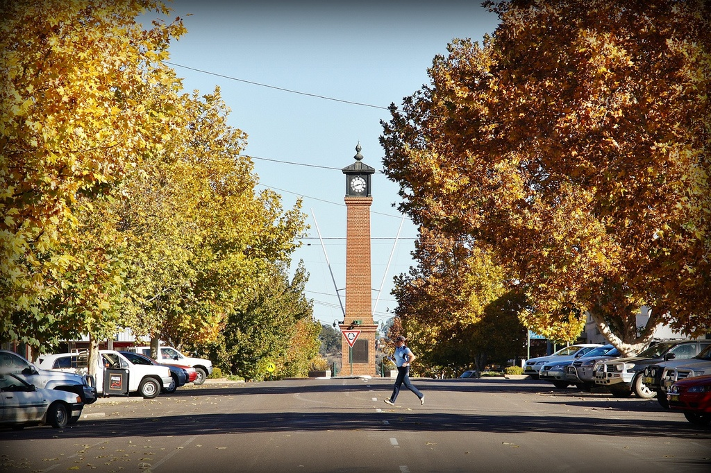 Main Street. Queen Street Barraba NSW.